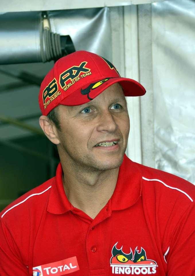 Rally and rallycross driver Petter Solberg of Norway. Round 10 of the 2014 FIA World Rallycross Championship at the Franciacorta International Circuit, Italy.